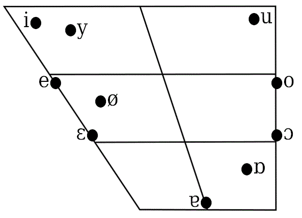 Vocali su quadrilatero del dialetto Ligure dell'Oltregiogo Centrale parlato ad Ovada.